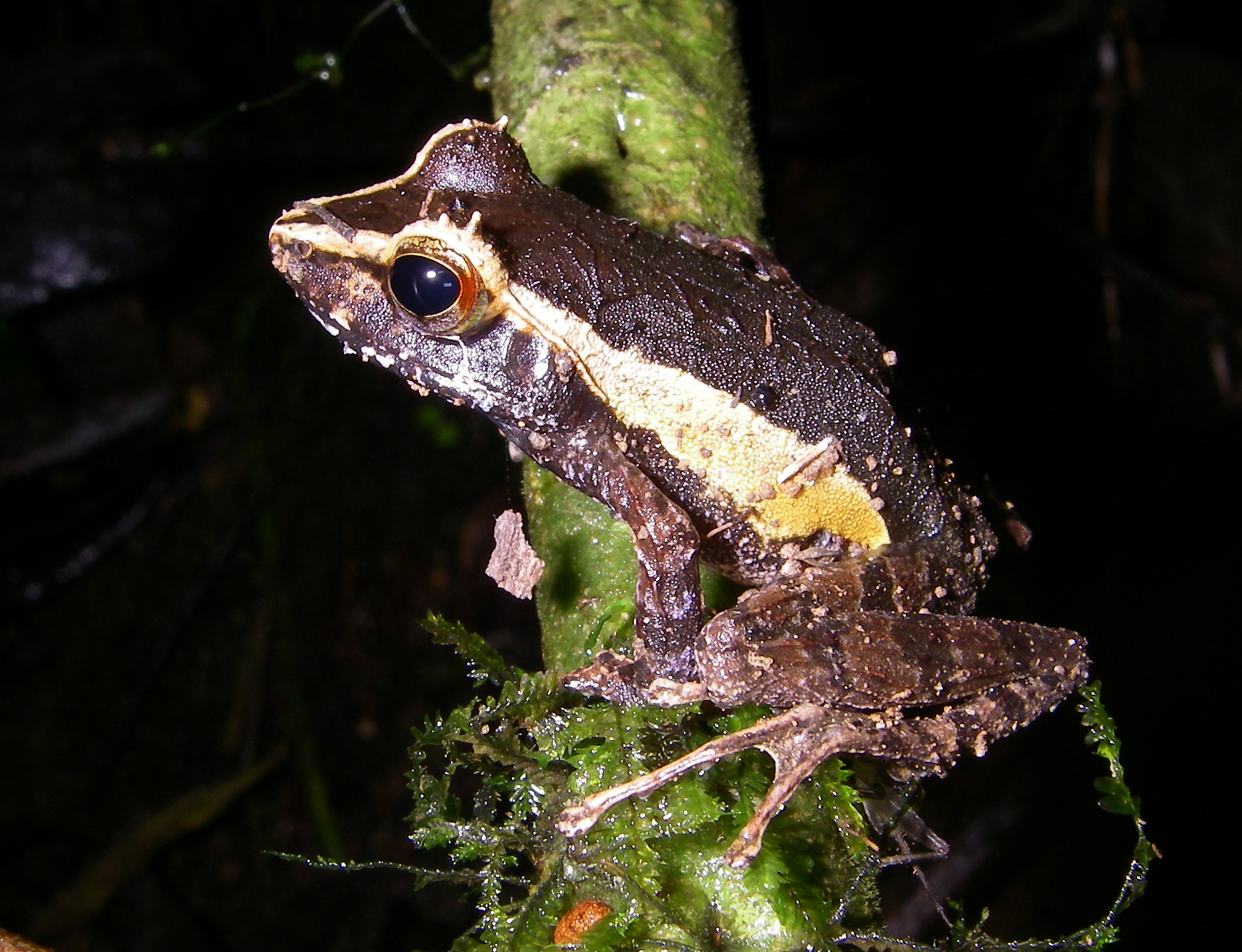 Gephyromantis tschenki (Mantellidae); Ranomafana National Park